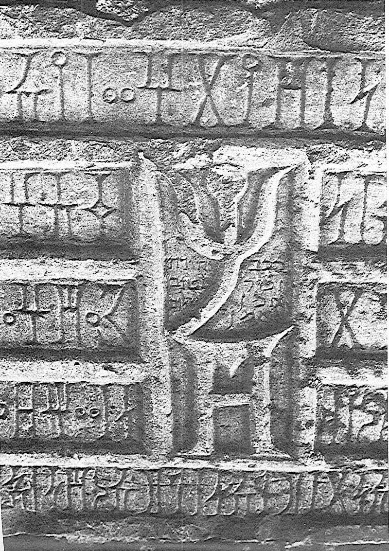 Sabaean Inscription with Hebrew writing: "The writing of Judah, remembered for good, Amen"